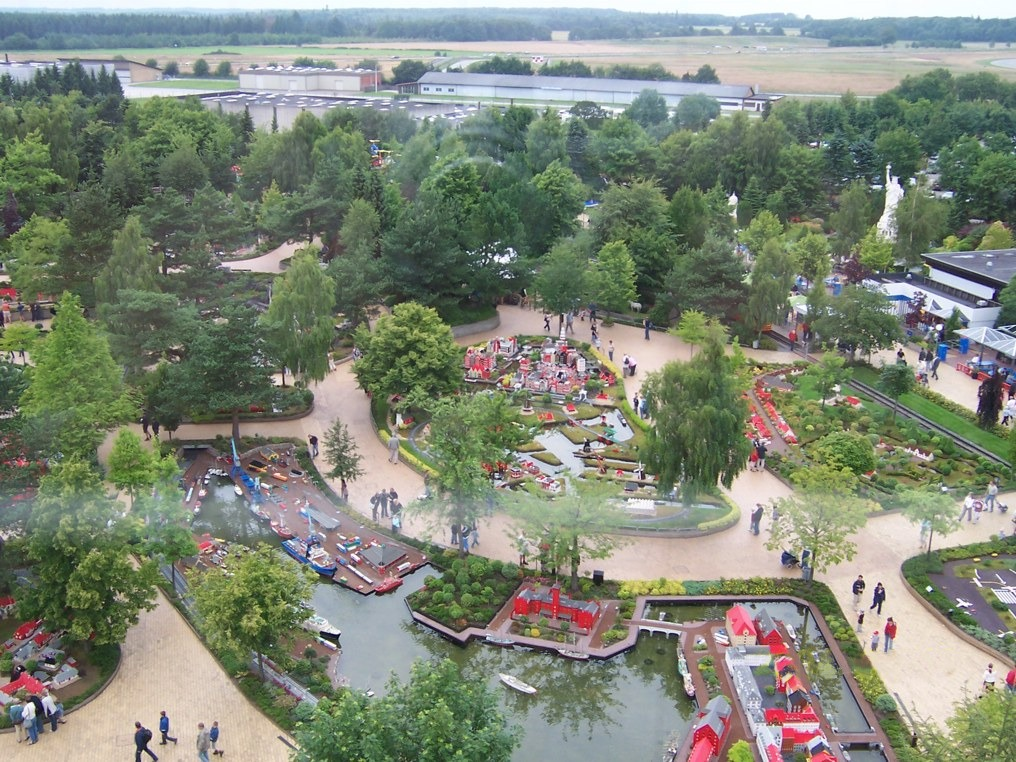 Legoland Billund Denmark. This is a view out the window of the observation tower and shows some reflection.